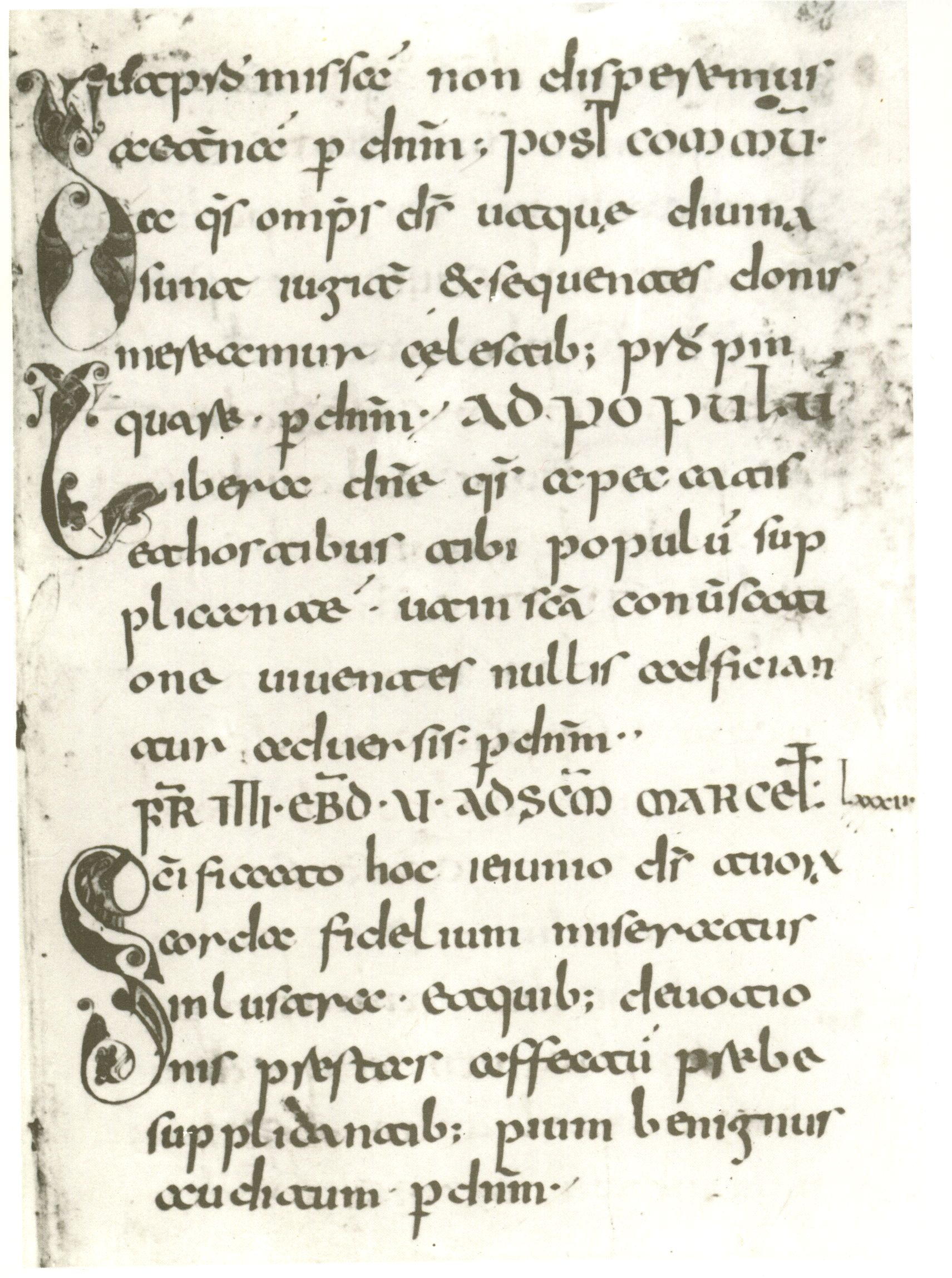 Raetic Script in a Sacramentary. Manuscript St. Gallen, Stiftsbibliothek, 350, fol. 3a.